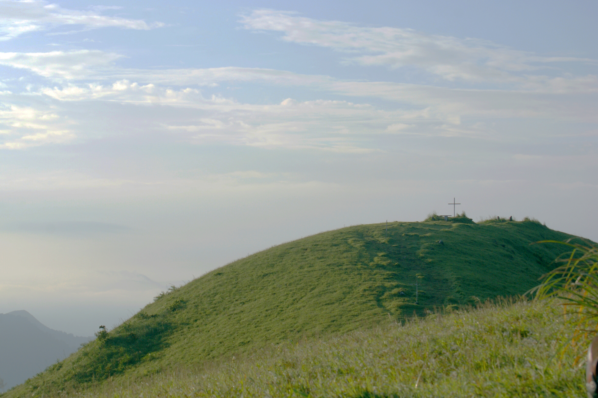 Panchalimedu, Idukki